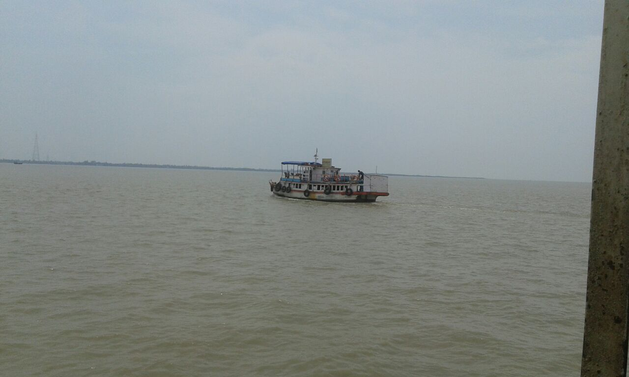 Ganga river lanch service in Sagar deep